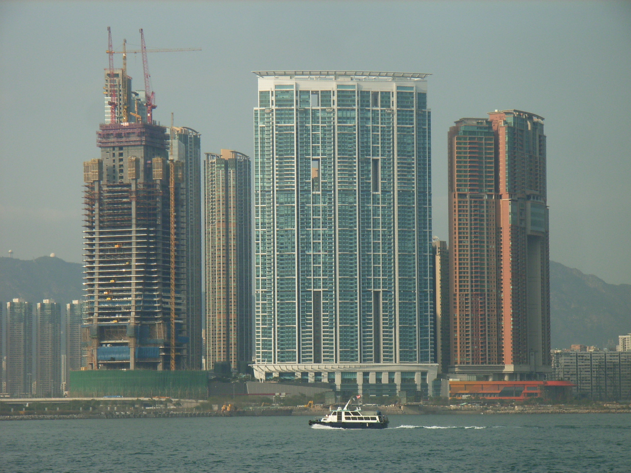 圖左起zh:環球貿易廣場、漾日居、君臨天下及凱旋門, 西九龍, West Kowloon, Hong Kong. Photo created by User:HungBEER.